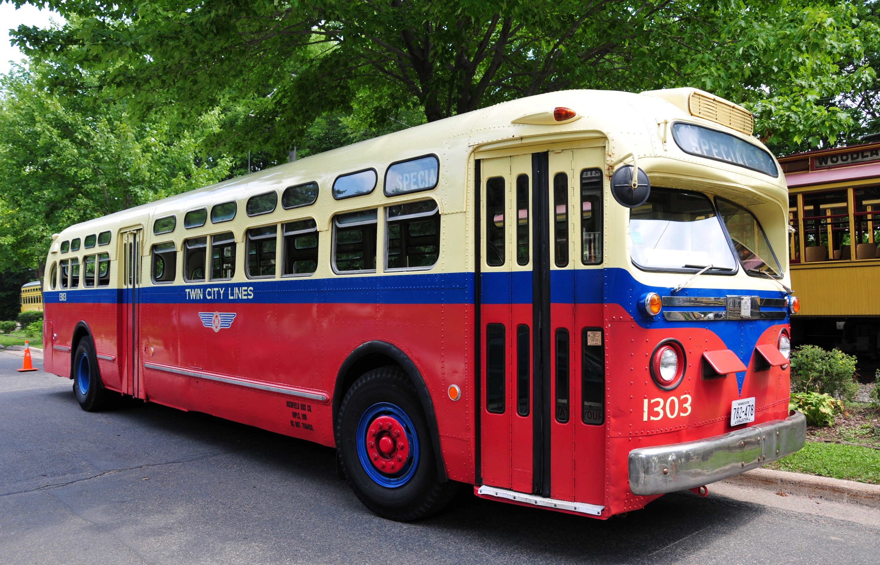 On display at the 40th anniversary celebration for the heritage streetcar line at Lake Harriet in Minneapolis, in 2011, was one of the generation of buses that replaced the streetcars in 1954. Ex-Twin City Rapid Transit Co. bus 1303 is a GM TDH-5105 diesel bus.